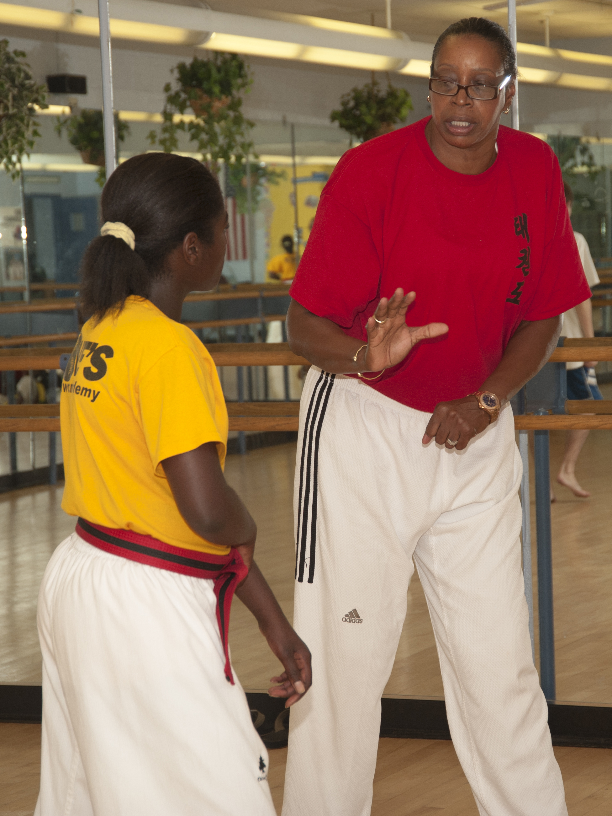 Master Lynnette Love gives a student one-on-one instruction during a scheduled class at the Love Academy at Andrews Youth Center on Aug. 14, 2012.. Love is an Olympic taekwando champion, and her story has inspired a movie called "Seoul, U.S.A.," which is being produced later this year.